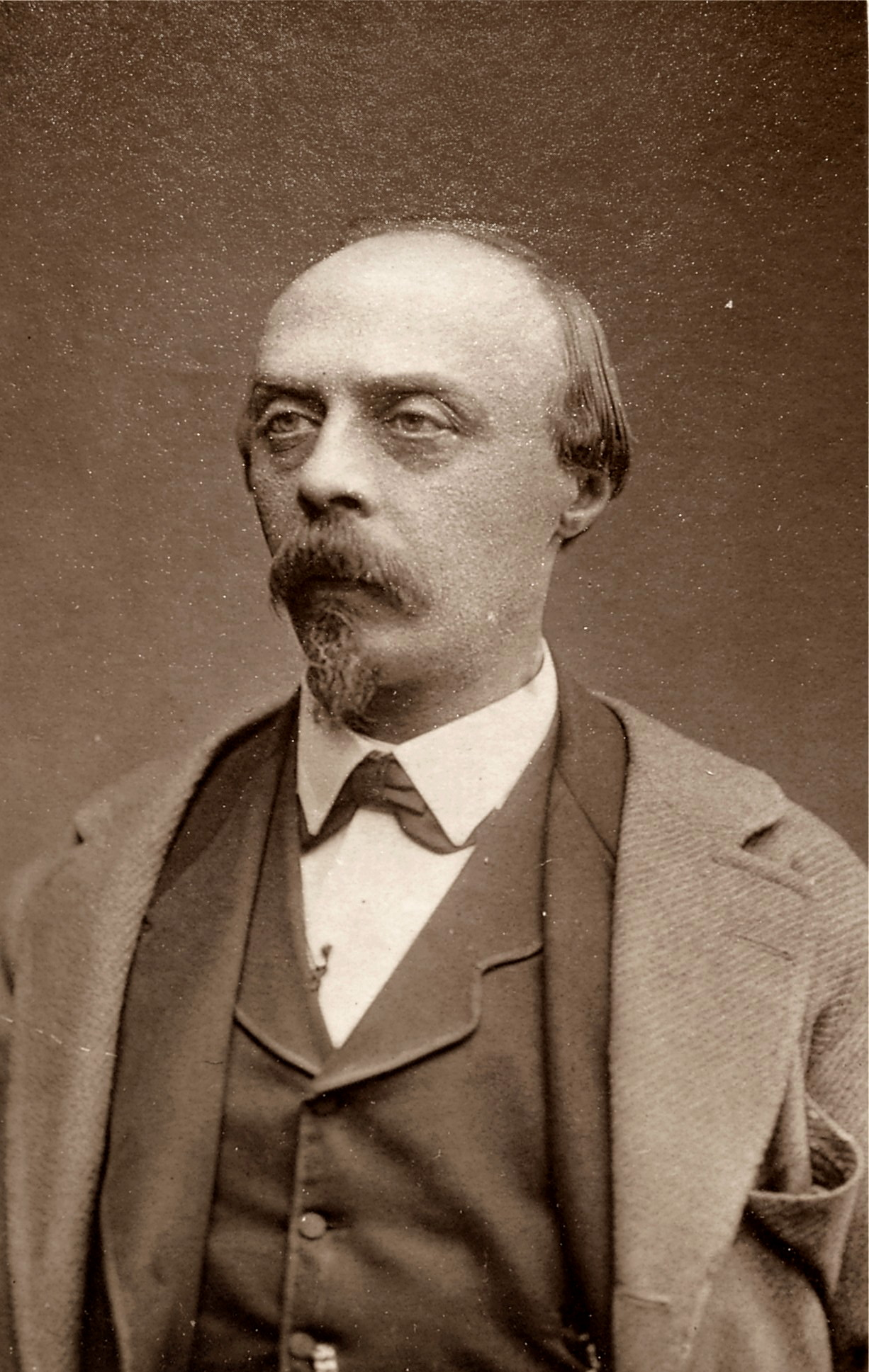 Hans von Bülow (1830-1894), german pianist, conductor and composer